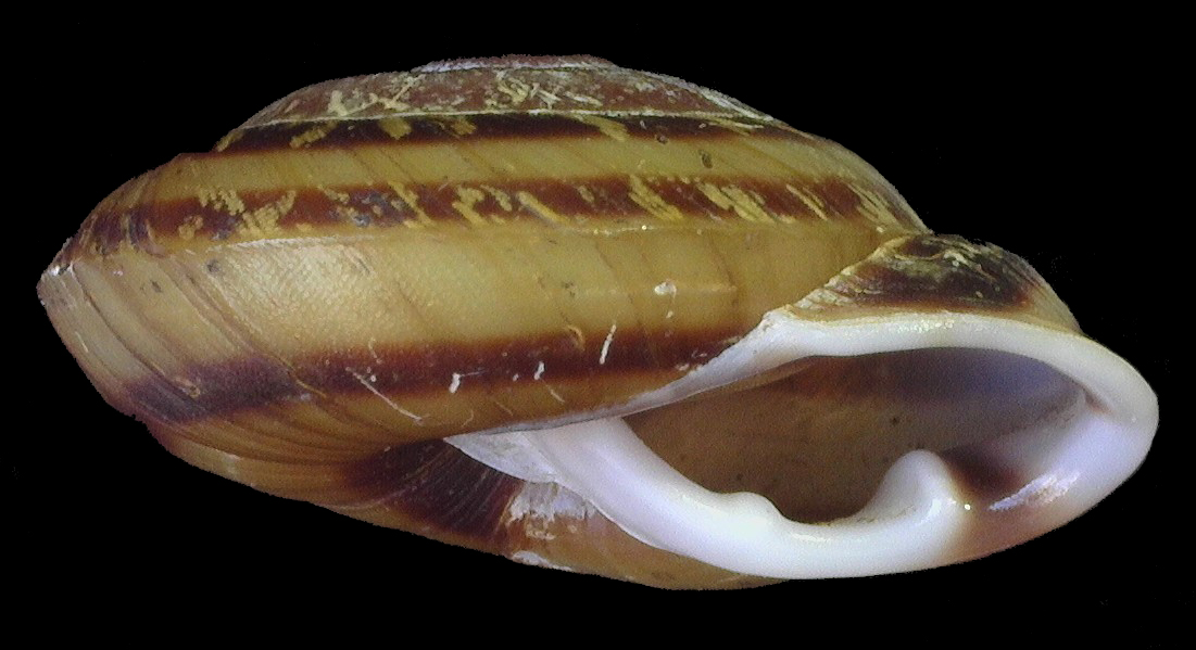 shell collected on the "Trace Merwart", on the eastern slope of the Basse-Terre Island mountains; specimen length, 19.5 mm.